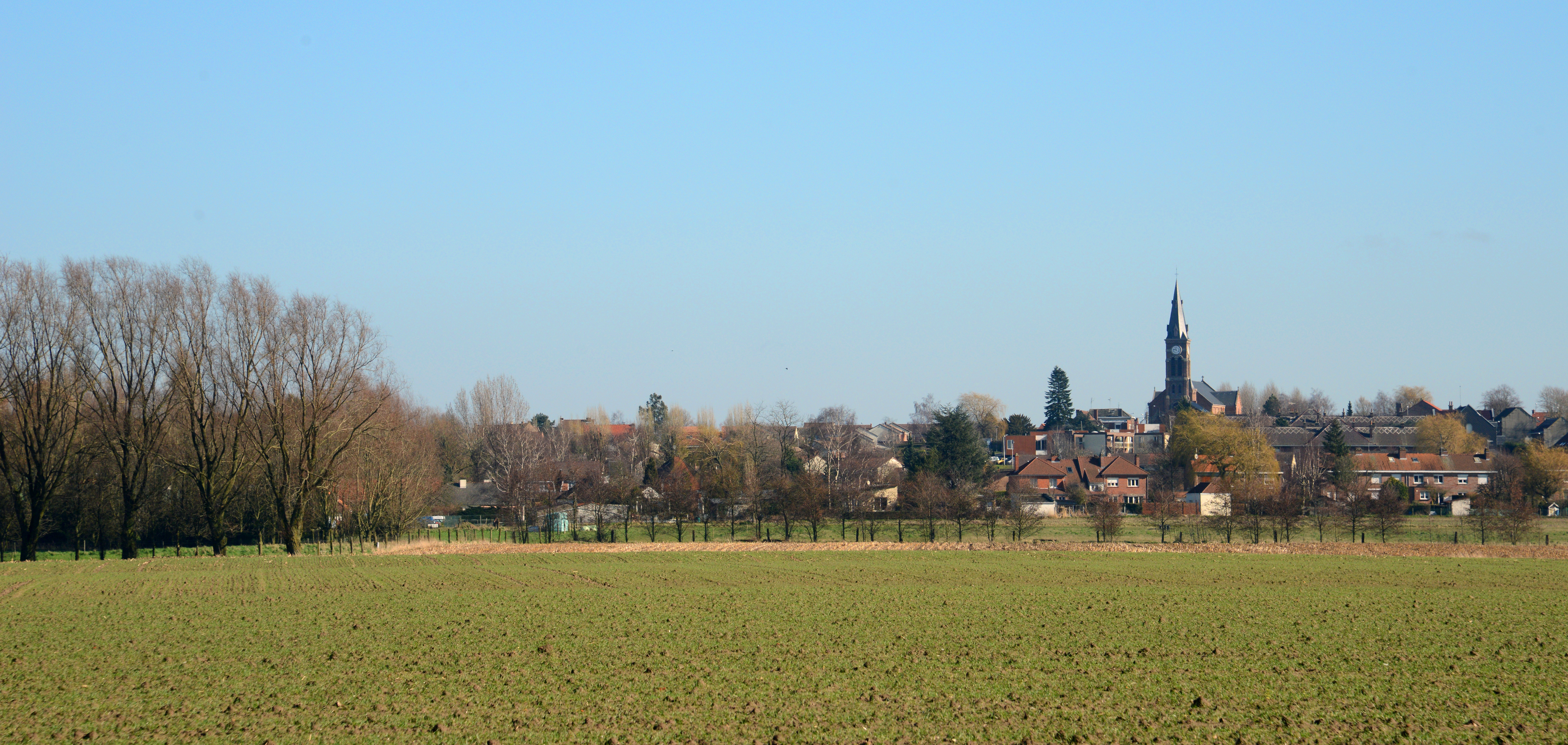 The mount of Halluin